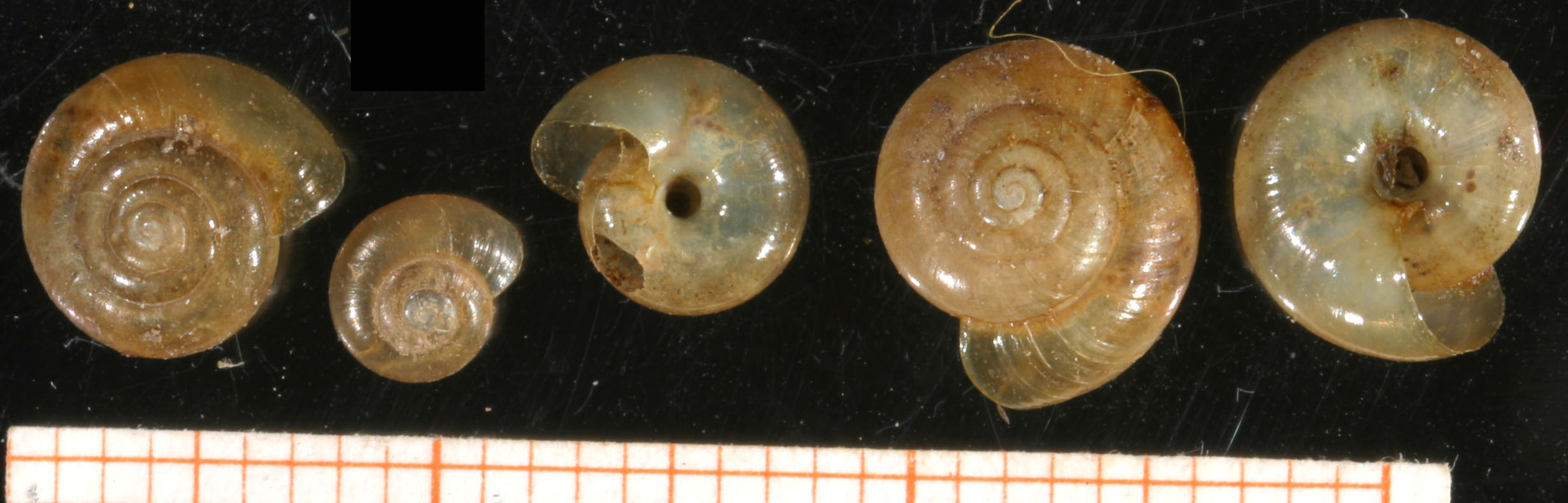 Oxychilus alliarius (J. S. Miller, 1822), Oxychilidae, Stylommatophora, Pulmonata, near Korügen-Möltenort, Schleswig-Holstein, Germany.